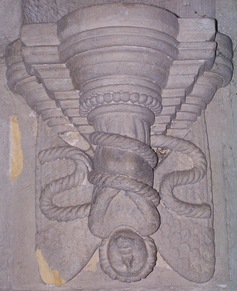 Rosslyn Chapel, Midlothian, Scotland - fallen angel